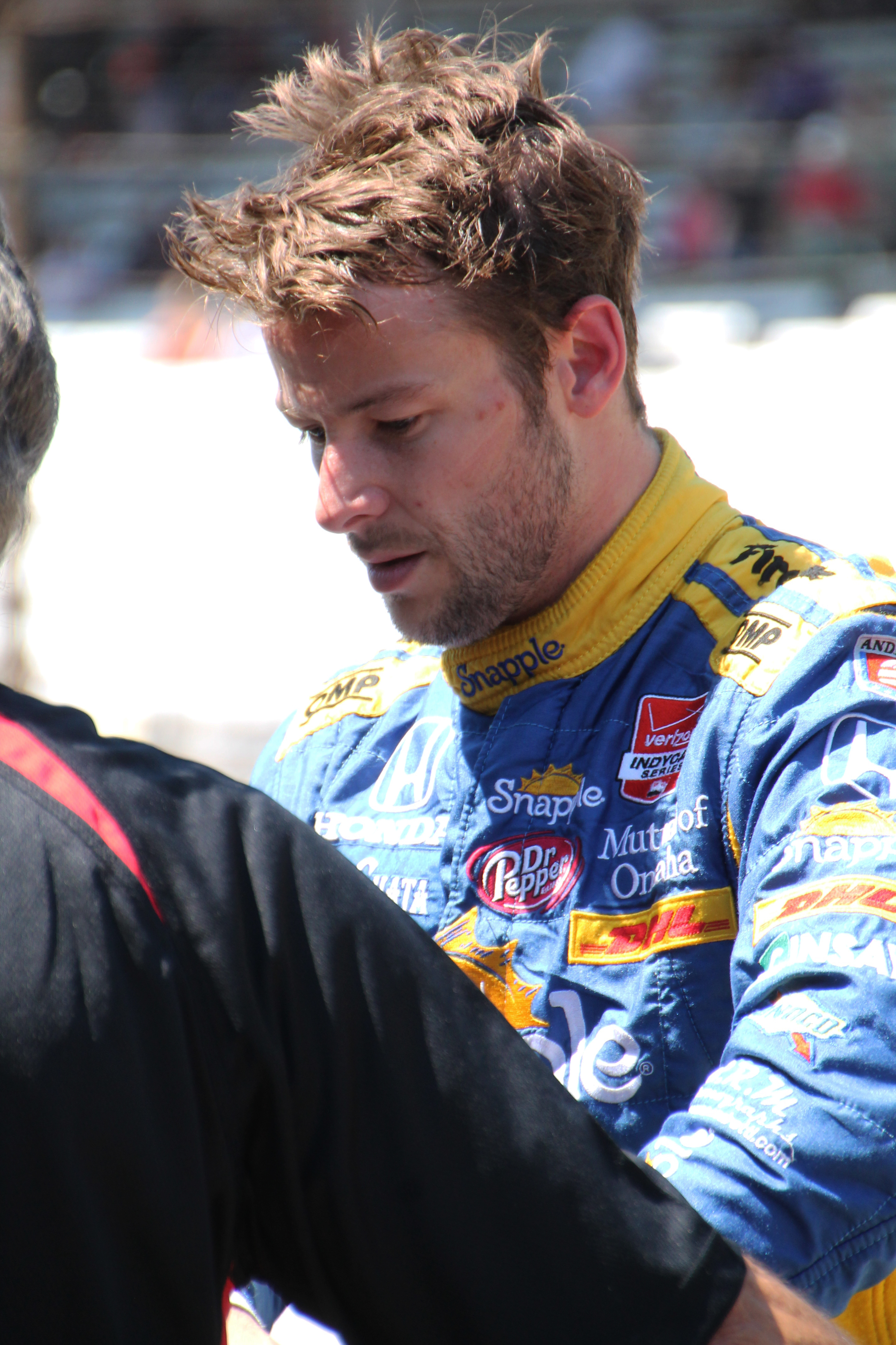 Marco Andretti after practice during Carb Day 2015 at the Indianapolis Motor Speedway.